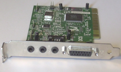 a front view of a PCI based sound card (Yamaha XG) with 3 1/8" jacks and a DA-15 connector.